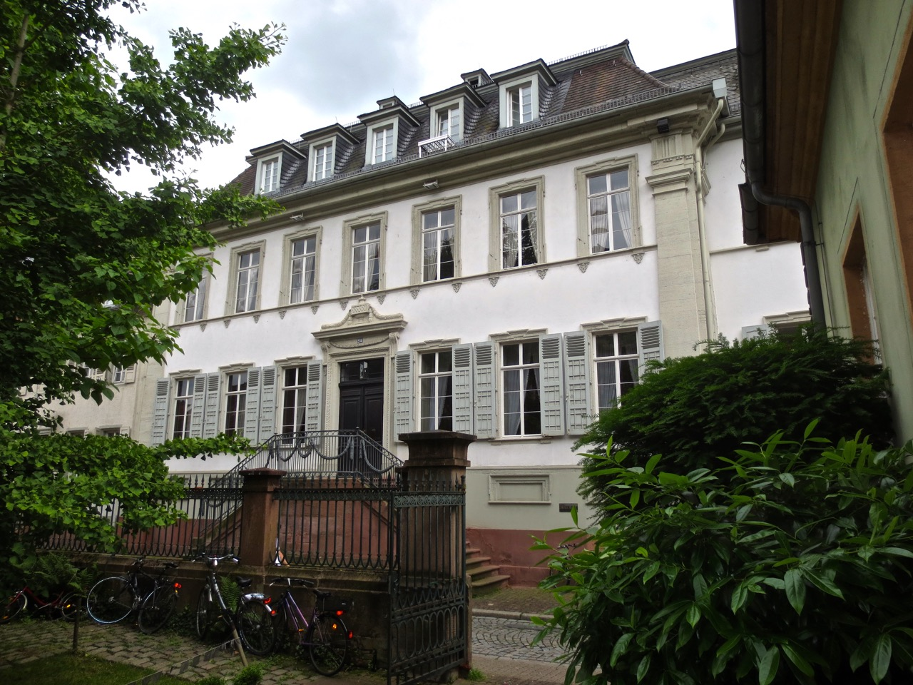 famous town houses in Heidelberg